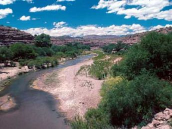 View of the Gila Box Riparian National Conservation Area — in southeastern Arizona. Sonoran Desert "xeric" riparian habitat, located along the eastern Gila River.